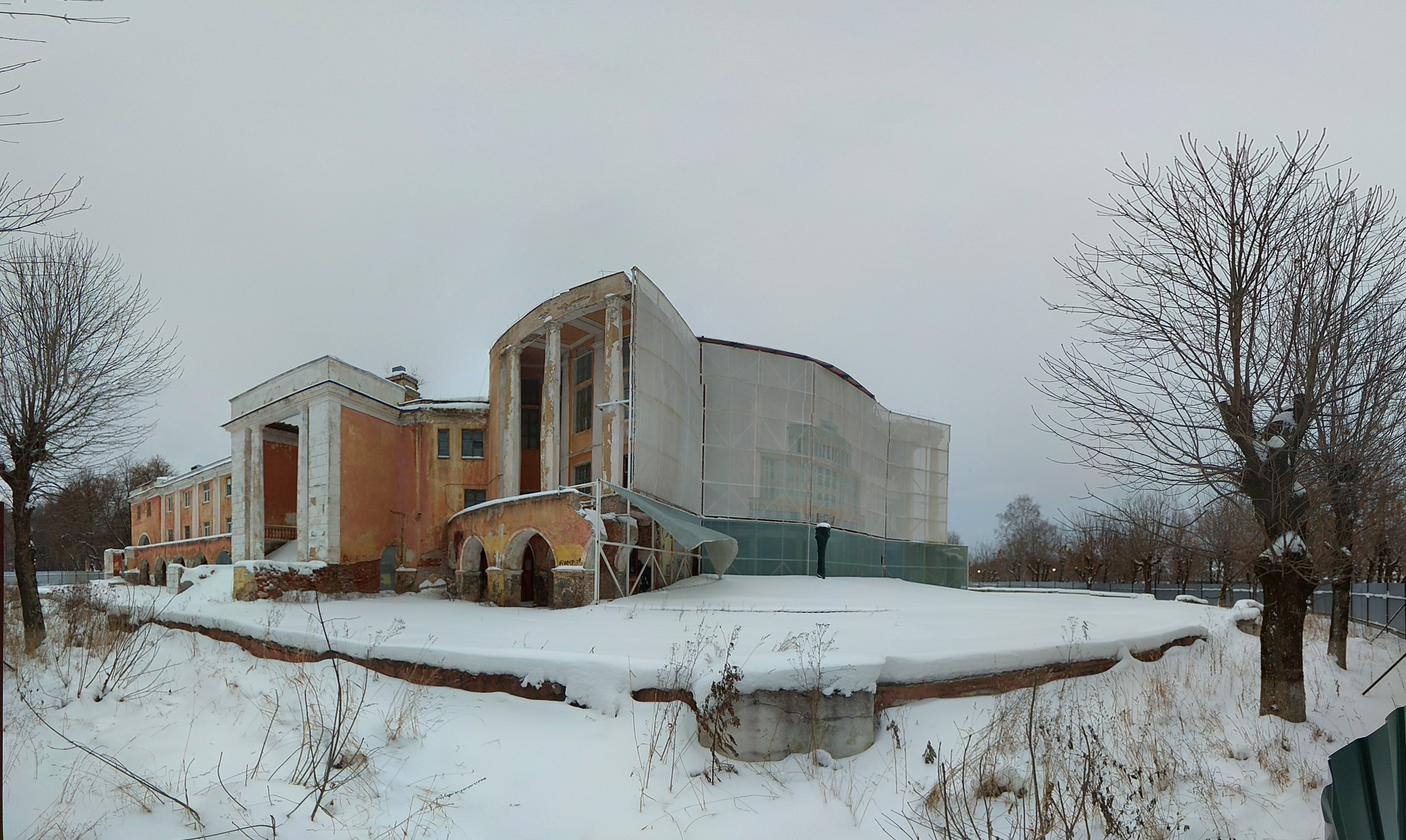 Current state of the Tver river terminal's building as seen on January 12th 2019 (Tver, Russia)